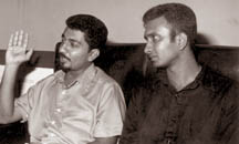 Two young men, fresh out of school, have taken the medium of Television, in imminent danger of being drowned in phantasmagoria, by the scruff of its neck and rubbed its face on the rock solid ground of reality. 'Api Nodanna Live' telecast every Sunday at 11 am over Sirasa is a hilarious send-up of television itself which punctures the pretensions and pomposities of the presenters, talk show hosts and the advertising agencies as reflected in the Idiot Box.